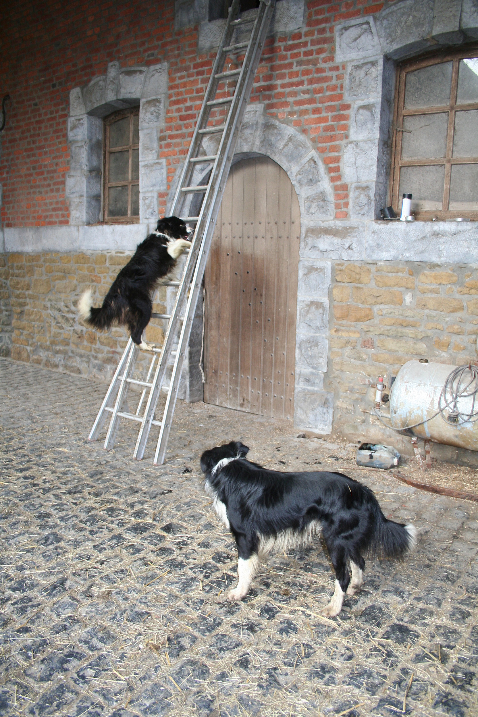 Haversin (Belgium), two border collies of the Castle Farm.